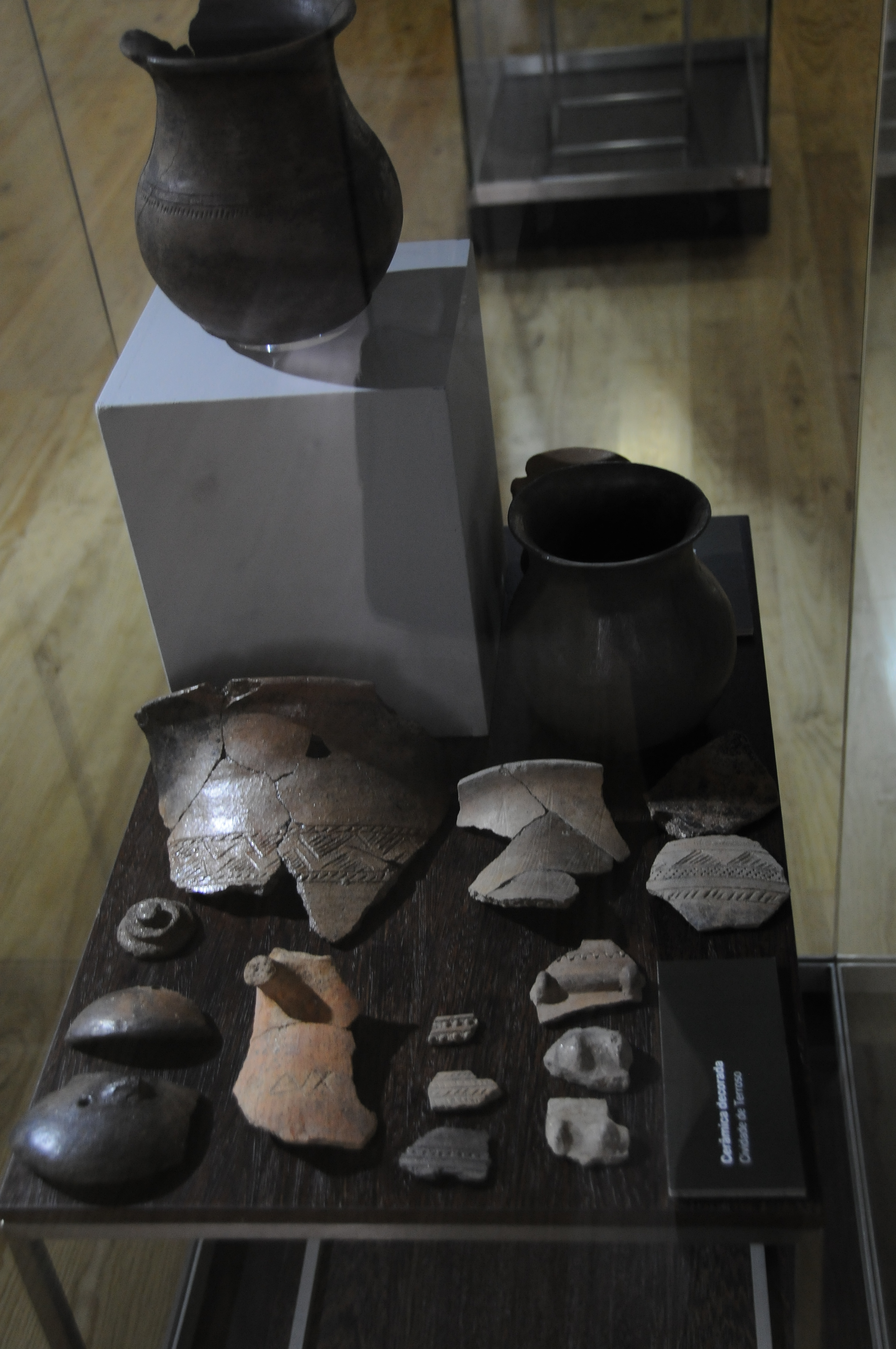 Museu Municipal de Etnografia e História da Póvoa de Varzim